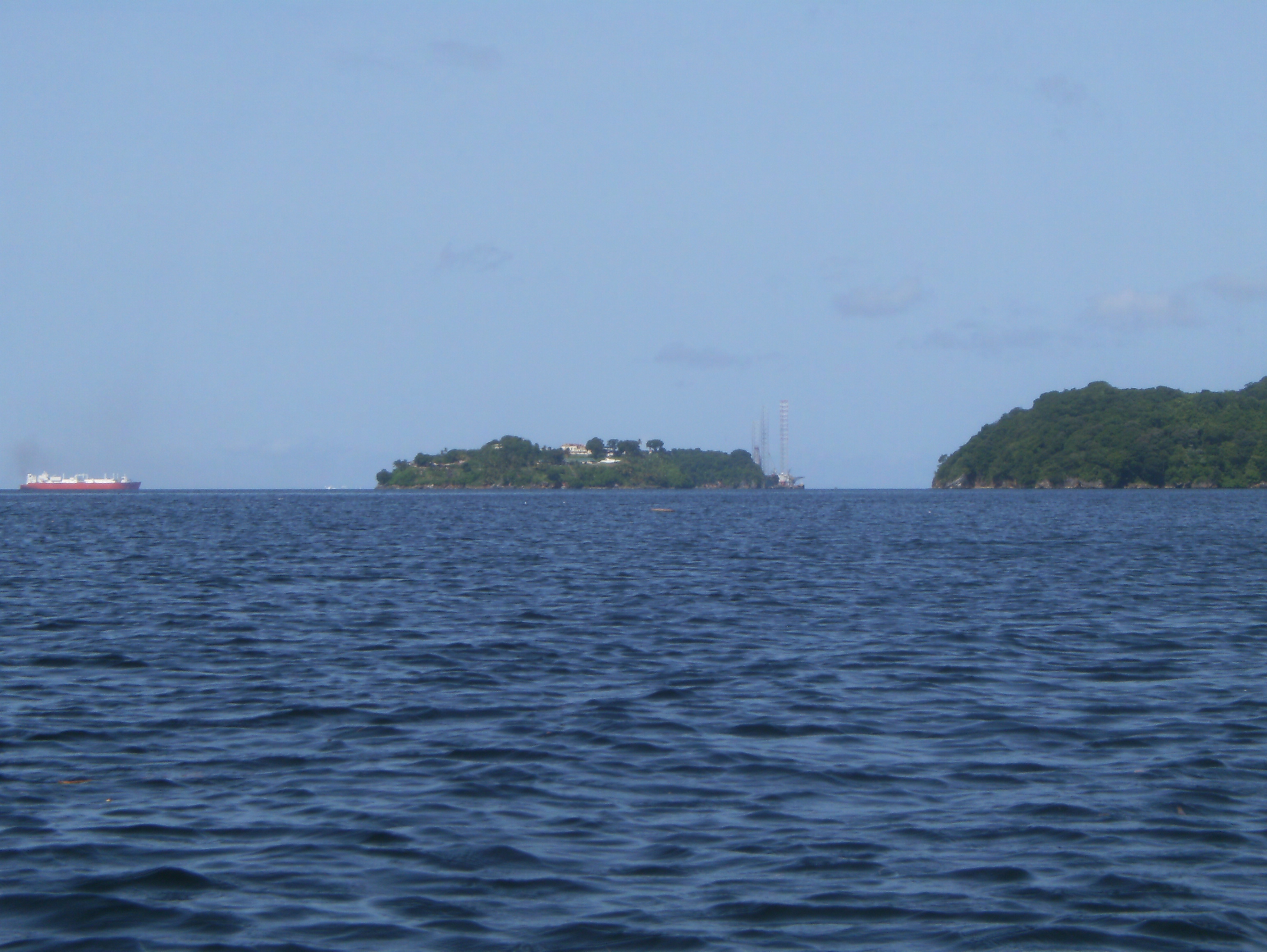 View of Carrera Island, one of the Islands in Trinidad and Tobago. It is used as a prison.